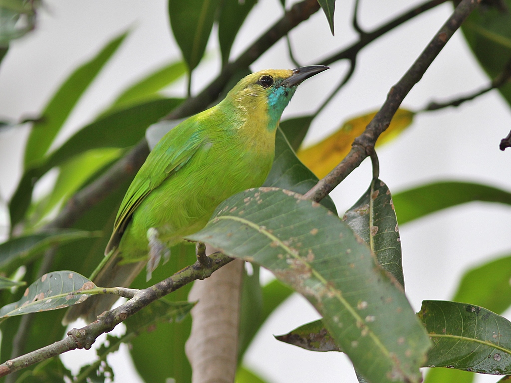 Clicked in Kannur, Kerala